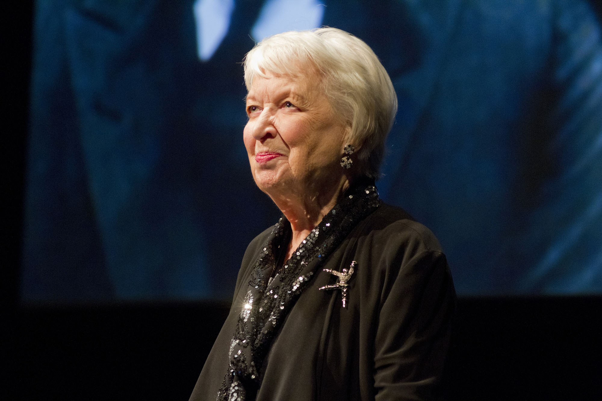 From Flickr: "June Whitfield came to Slapstick Festival in 2013 where she received the annual Aardman Slapstick Comedy Legend Award. This photo was taken during an in conversation with Dr Matthew Sweet."